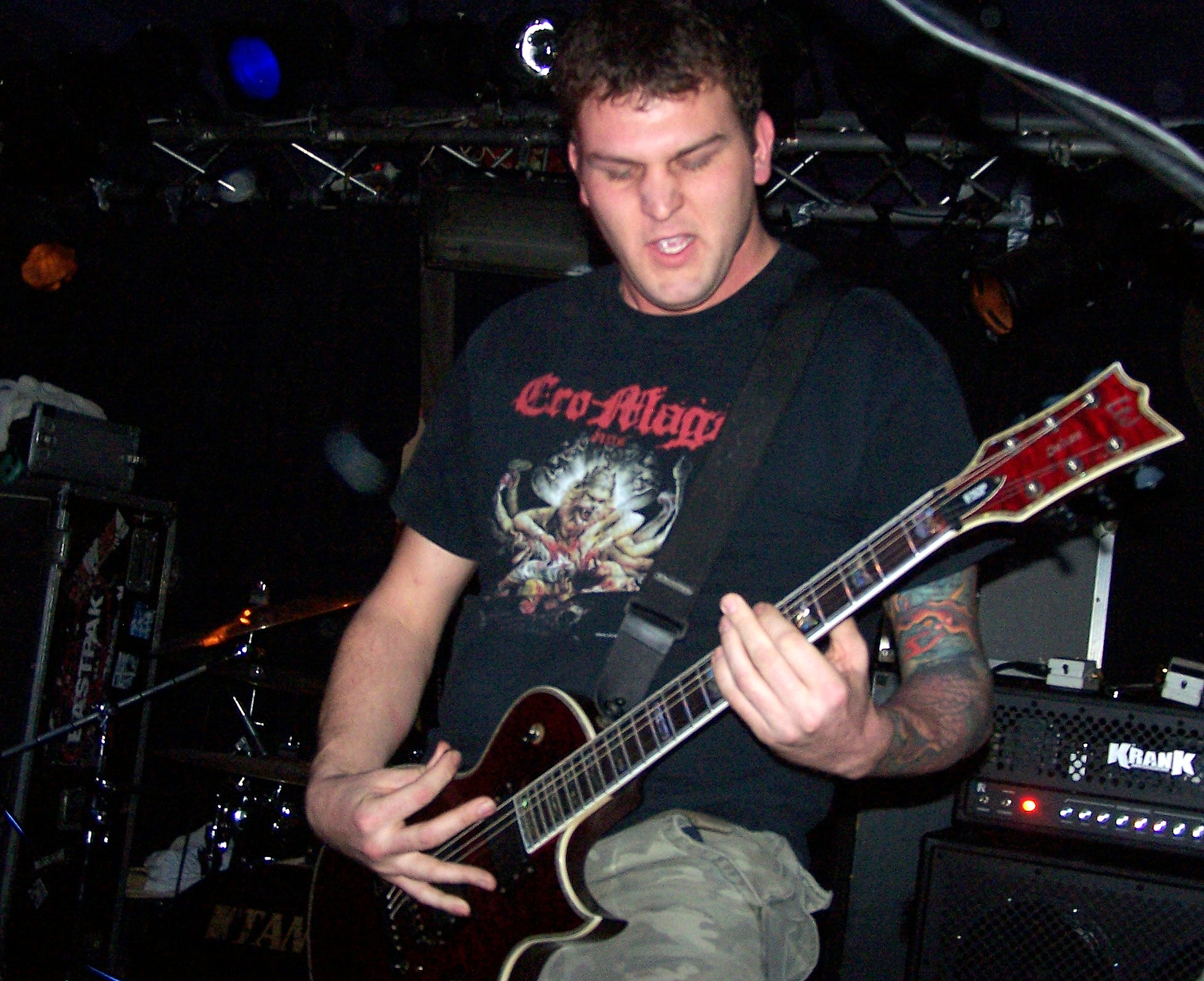 Doug Webber of Terror Los Angeles California during concert in Berlin, 2007 January 7th